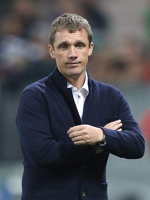 Viktor Goncharenko